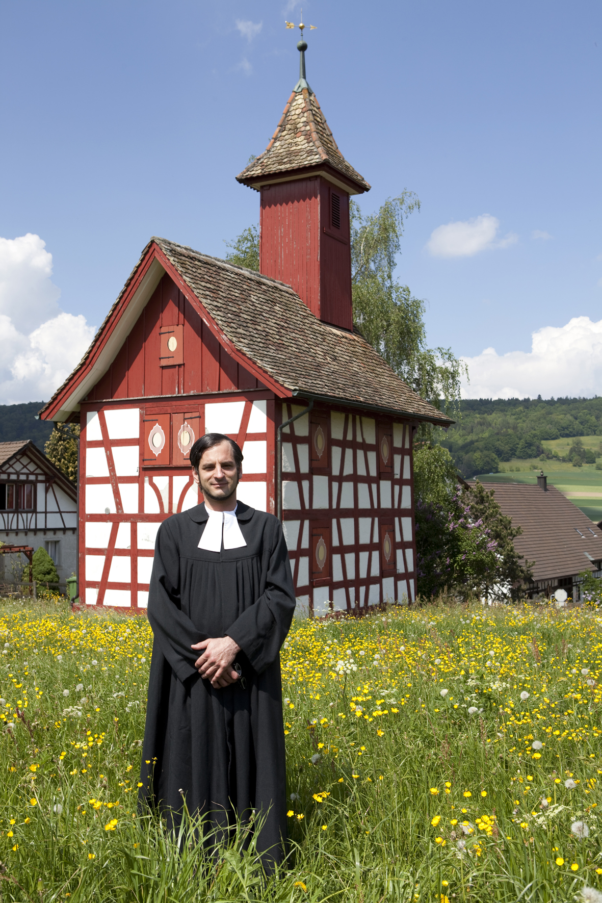 Portrait of Wilfried Stocher, President of CHASOS